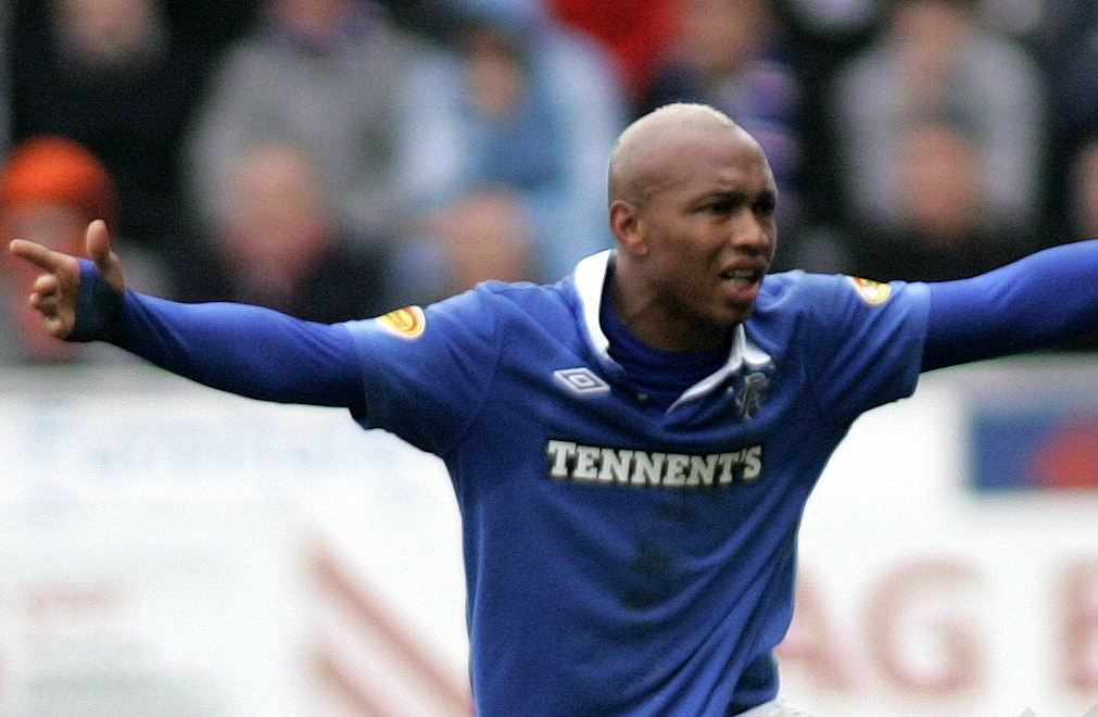 El Hadji Diouf ..complains to the Assistant Referee!